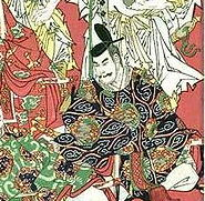 Emperor Kōkaku cropped from 1878 engraving by Toyohara Chikanobu (1838 - 1912). The left panel of this tryptic presents an image of Emperor Kōkau (clothed in black).